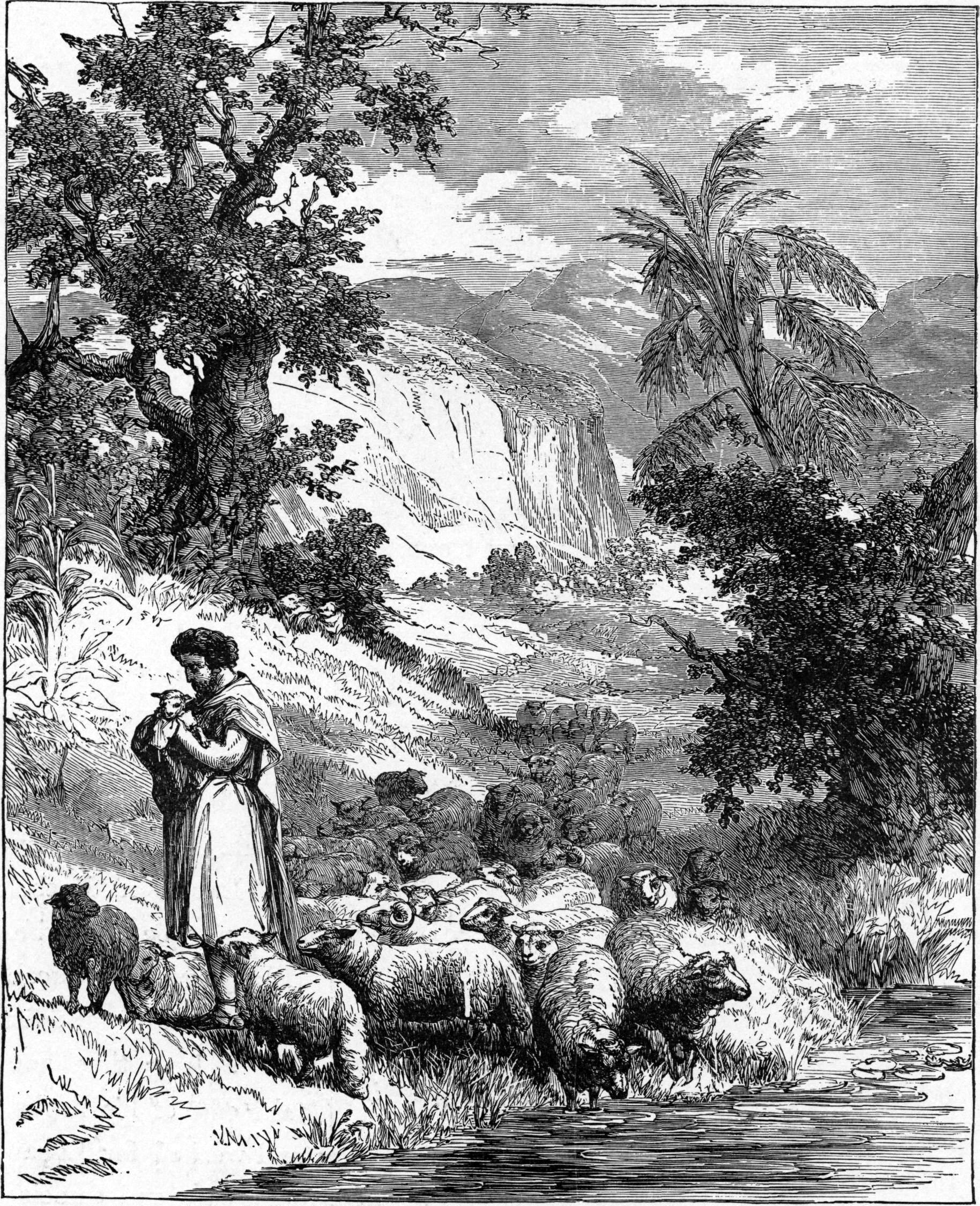 A Shepherd. Caption: "This is a shepherd leading his sheep. He is carrying a lamb in his arms." Illustration from the 1897 Bible Pictures and What They Teach Us: Containing 400 Illustrations from the Old and New Testaments: With brief descriptions by Charles Foster